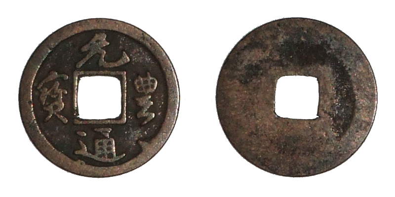 Nagasaki-genpotsuho-gyosho